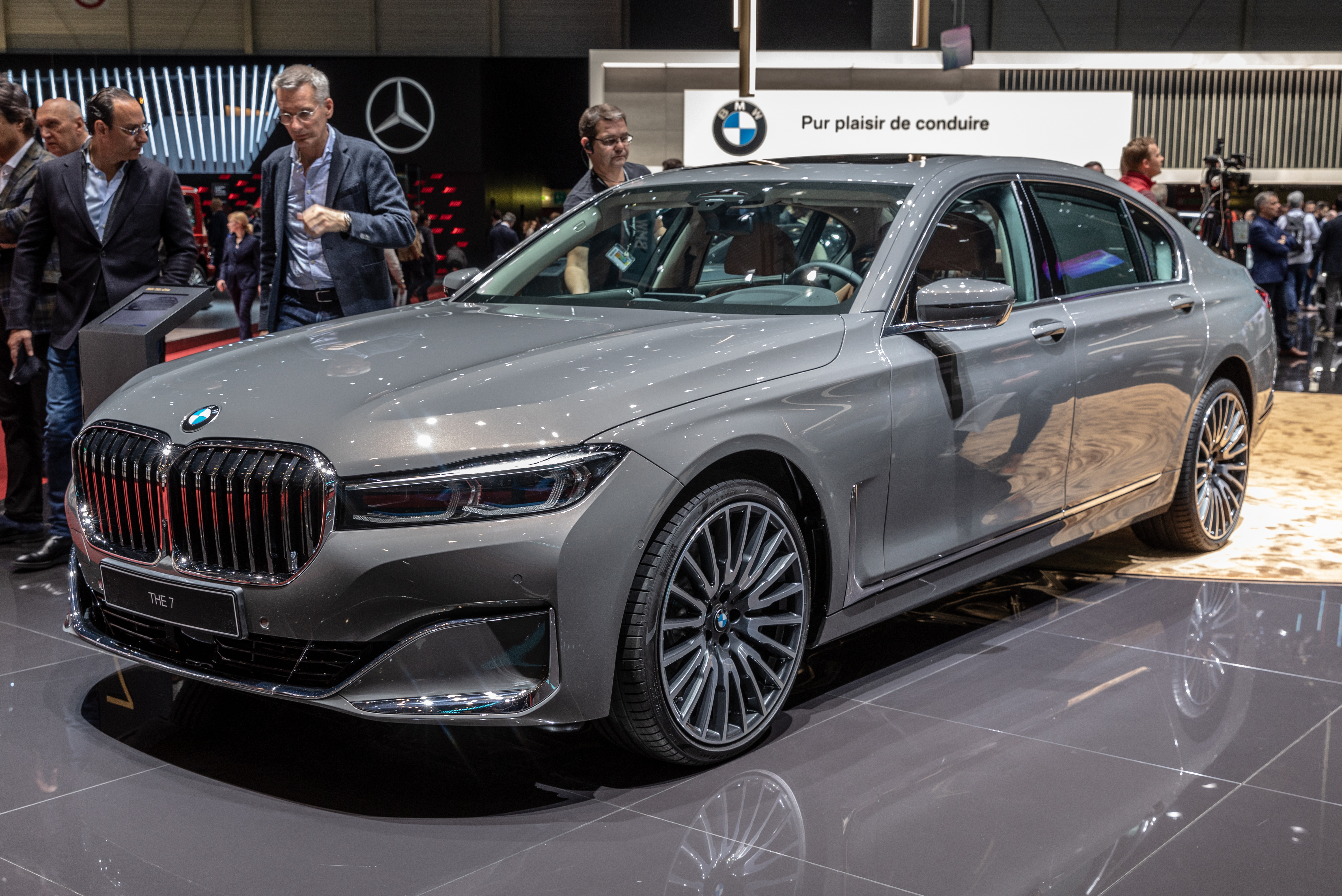 BMW 7 Series at Geneva International Motor Show 2019, Le Grand-Saconnex